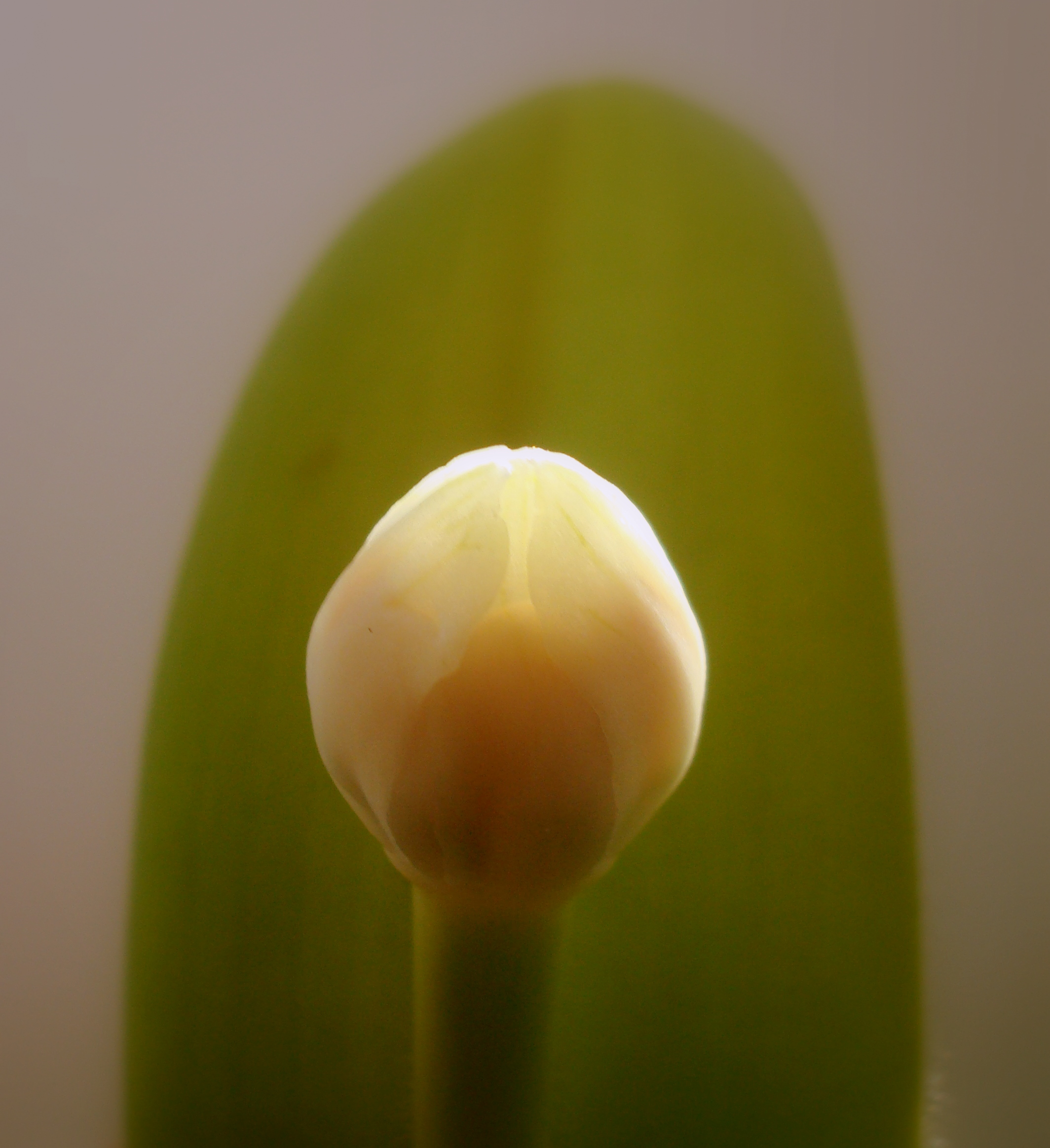 Haemanthus albiflos blossom